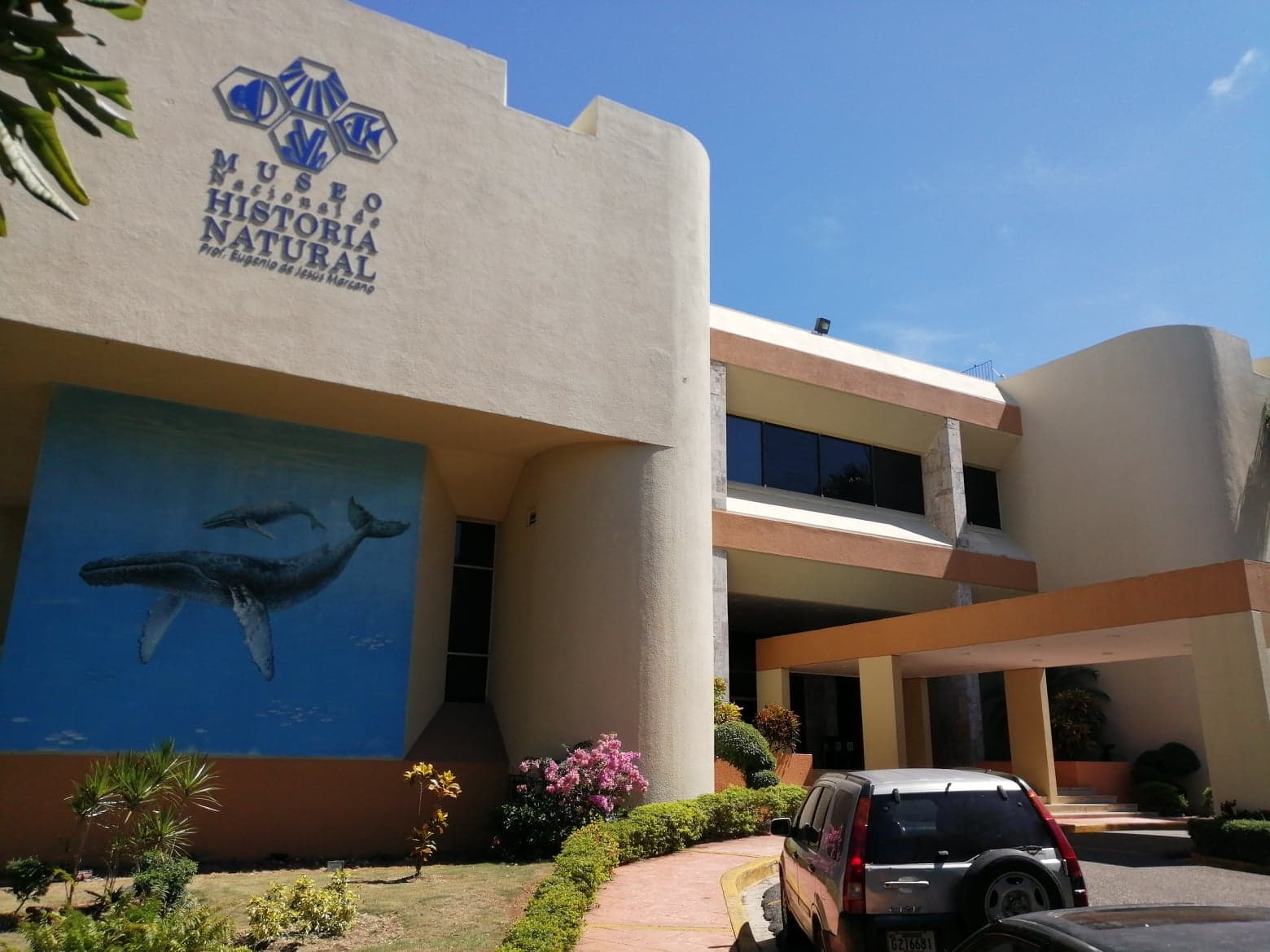 Image of the front building of the National Museum of Natural History of Santo Domingo, Dominican Republic